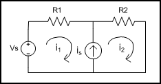 "Simple Circuit to use as an example in Mesh Analysis article"